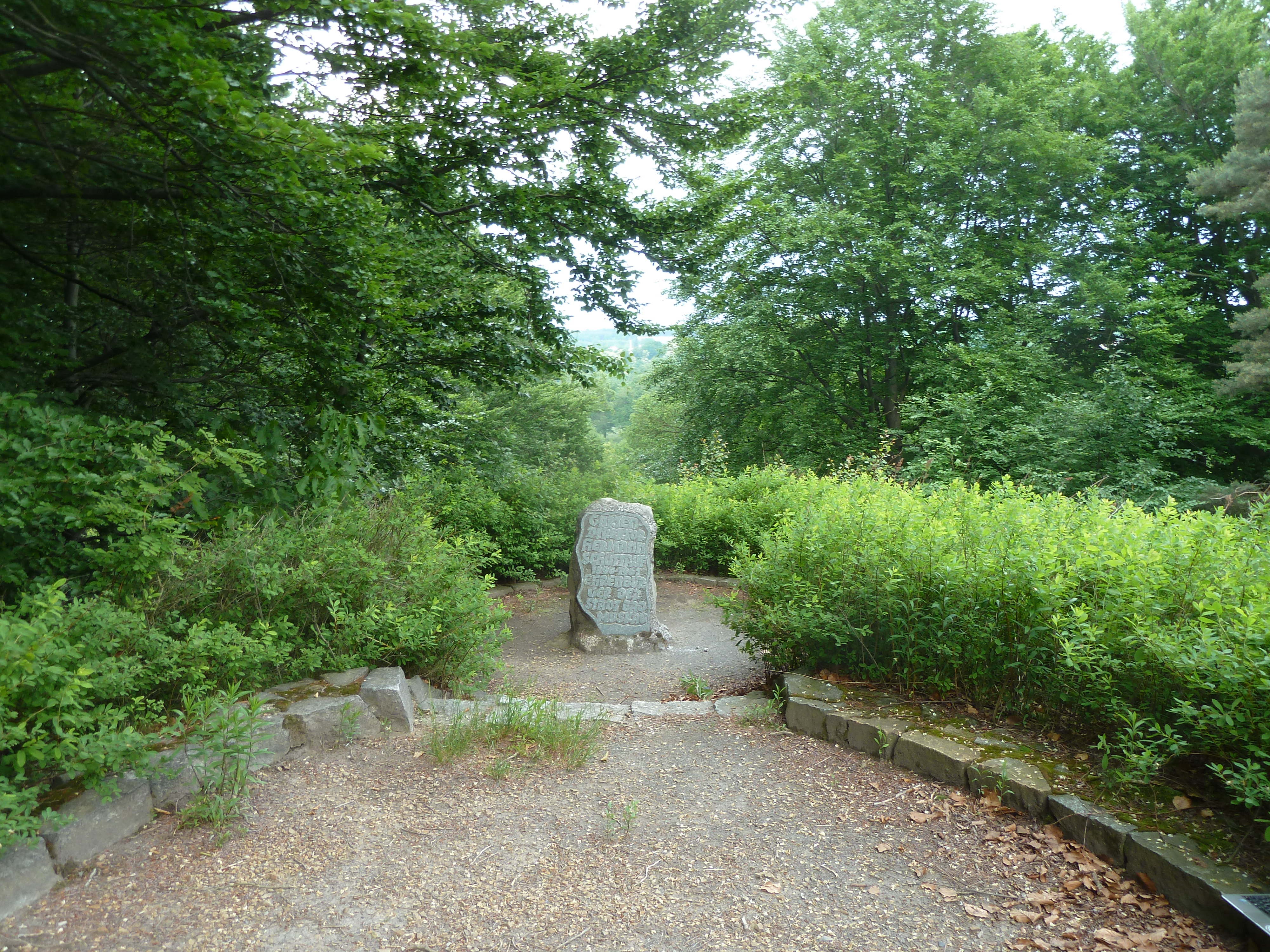 Schüttauf-Höhe with Hermann Schüttauf memorial stone in the Bergpark in Bad Muskau, Germany.